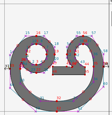 U0C05 Lohit-Telugu Definition